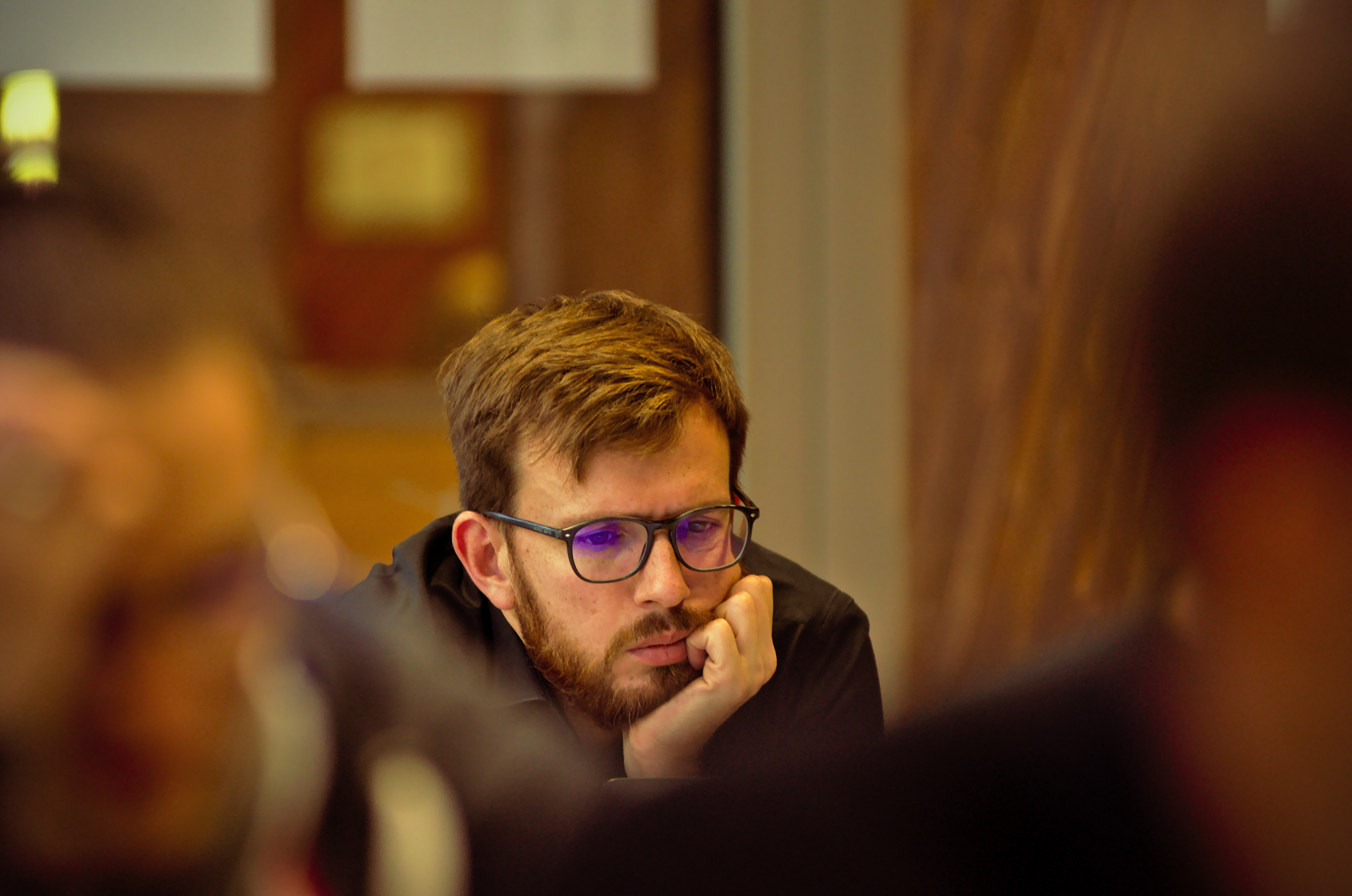 Wikipedia meets NLP workshop. Mark Fišel.